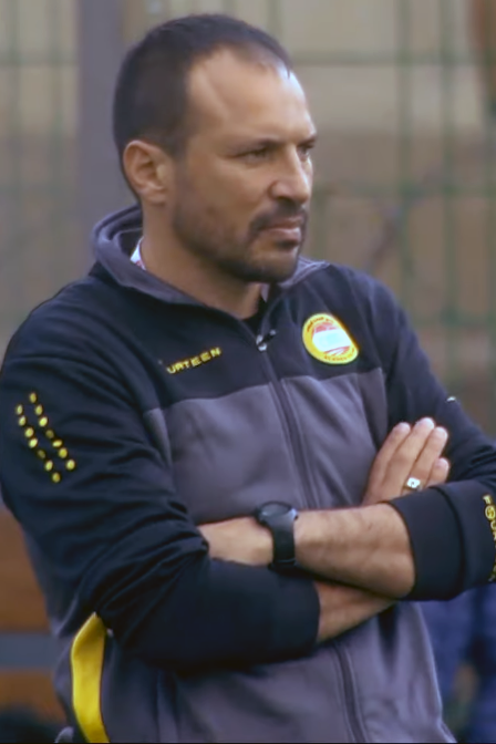 Bassem Marmar coaching Ahed against Akhaa Ahli Aley during the 2019-20 Lebanese Premier League season.